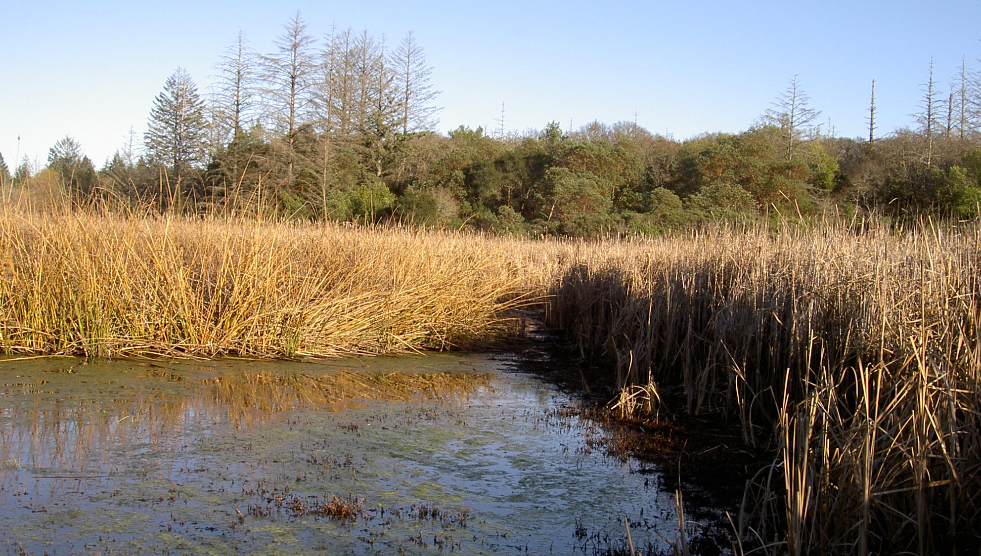 remnant of Ledson Marsh in early winter